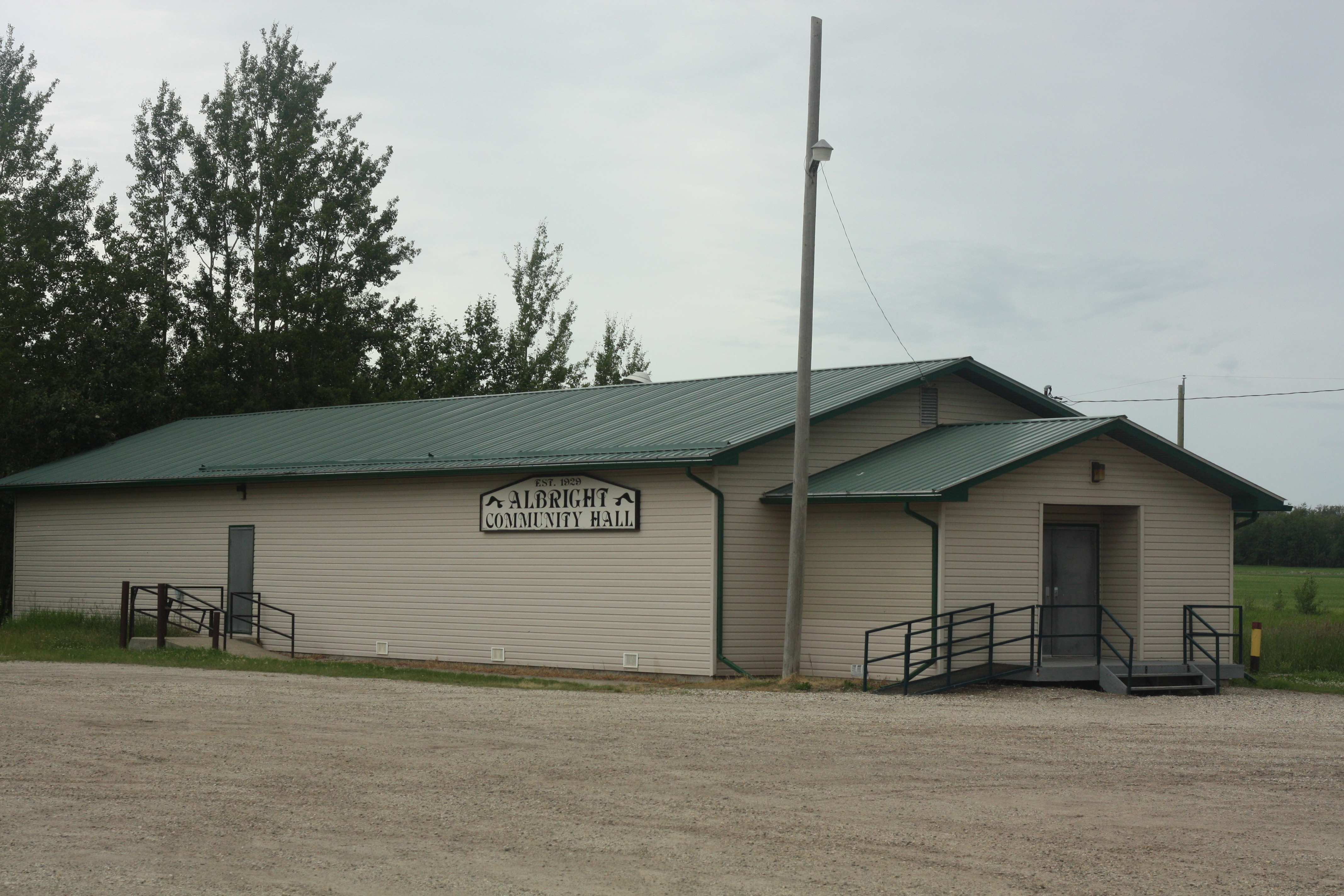 Hall in Albright, Alberta adjacent to Highway 43.